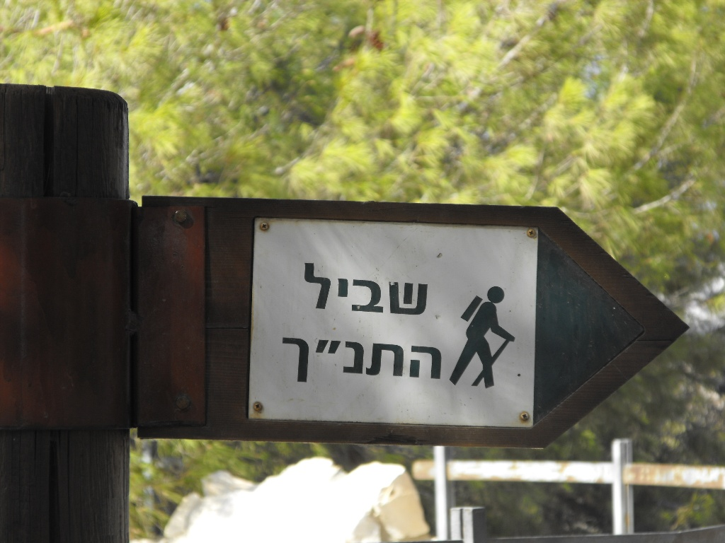 Bible Trail on Mount Gilboa